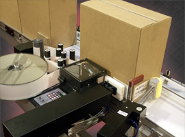 Author: Robert Luther Photographer: Robert Luther URL